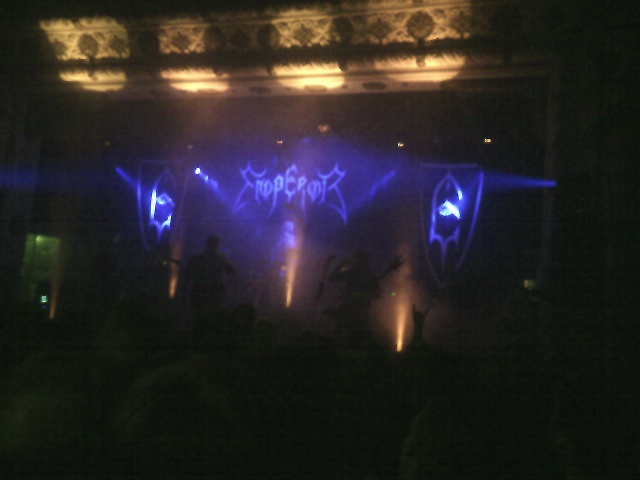 Norwegian Black Metal band Emperor, Chicago Illinois, USA, May 31 2007